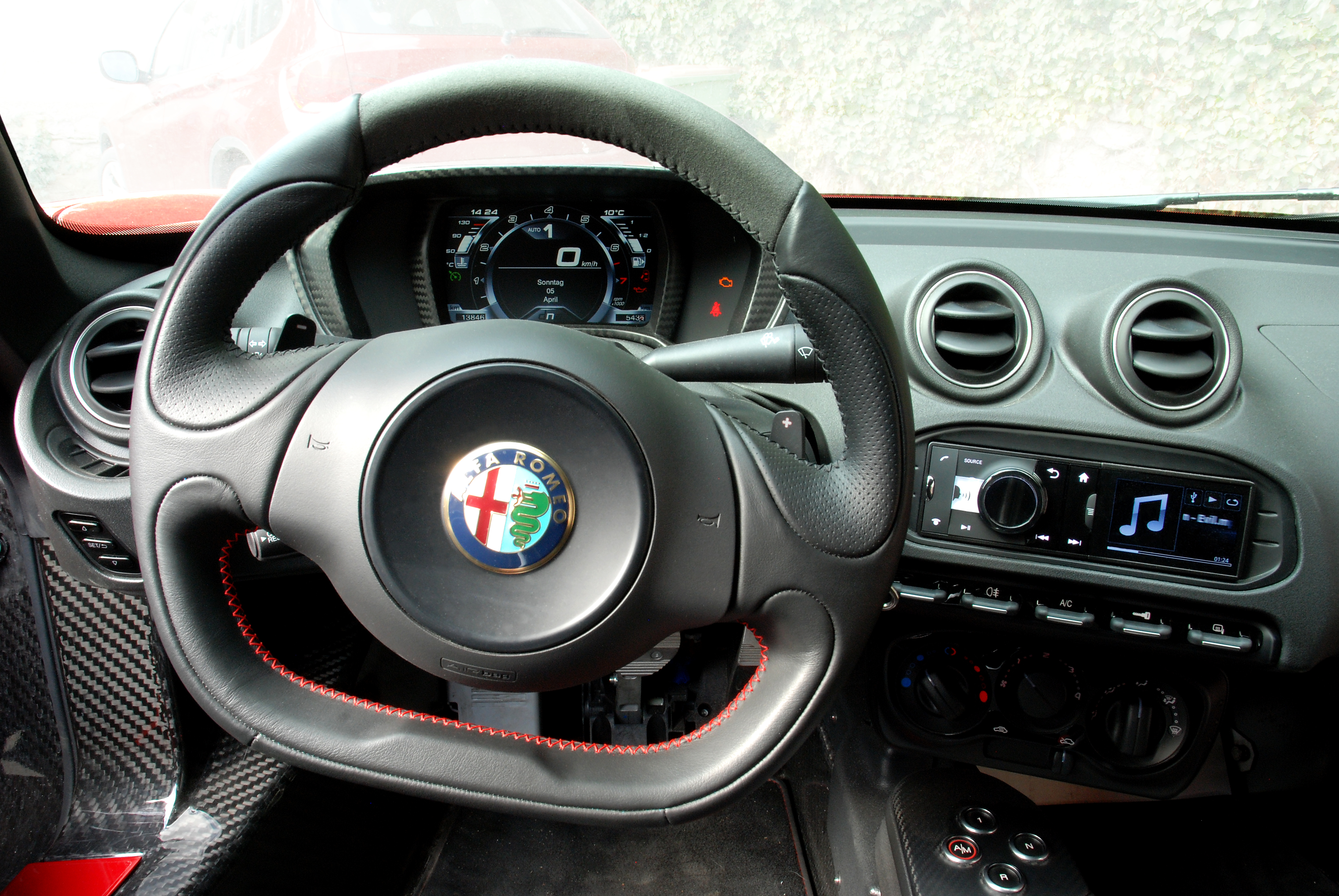 This picture shows the dashboard of an Alfa Romeo 4C.